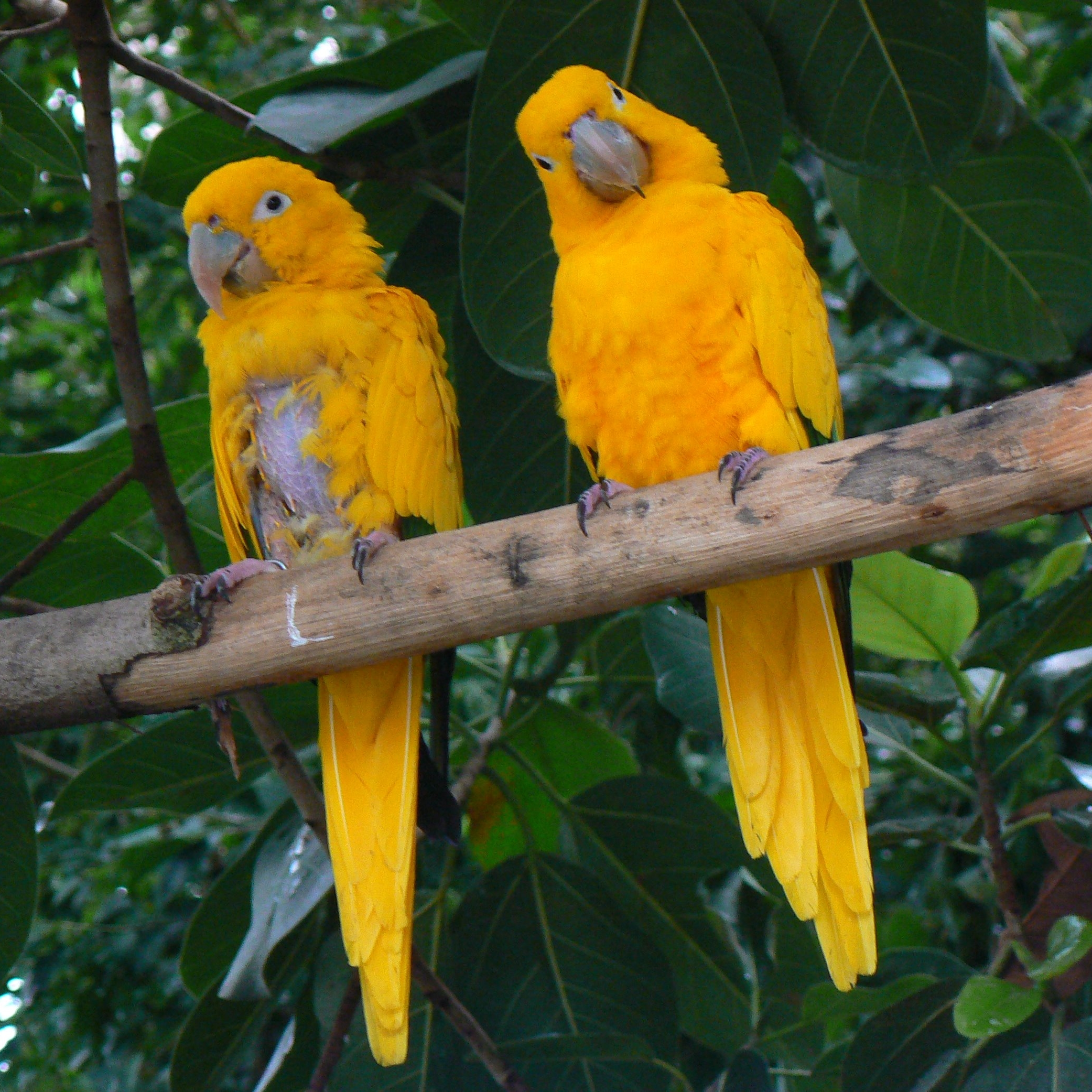 Golden Conure, Guaruba guarouba, (formerly classified as Aratinga guarouba) is also known as the Golden Parakeet or the Queen of Bavaria Conure. The Pittsburgh National Aviary, USA. The one on the left has some unfeathered areas owing to feather plucking.